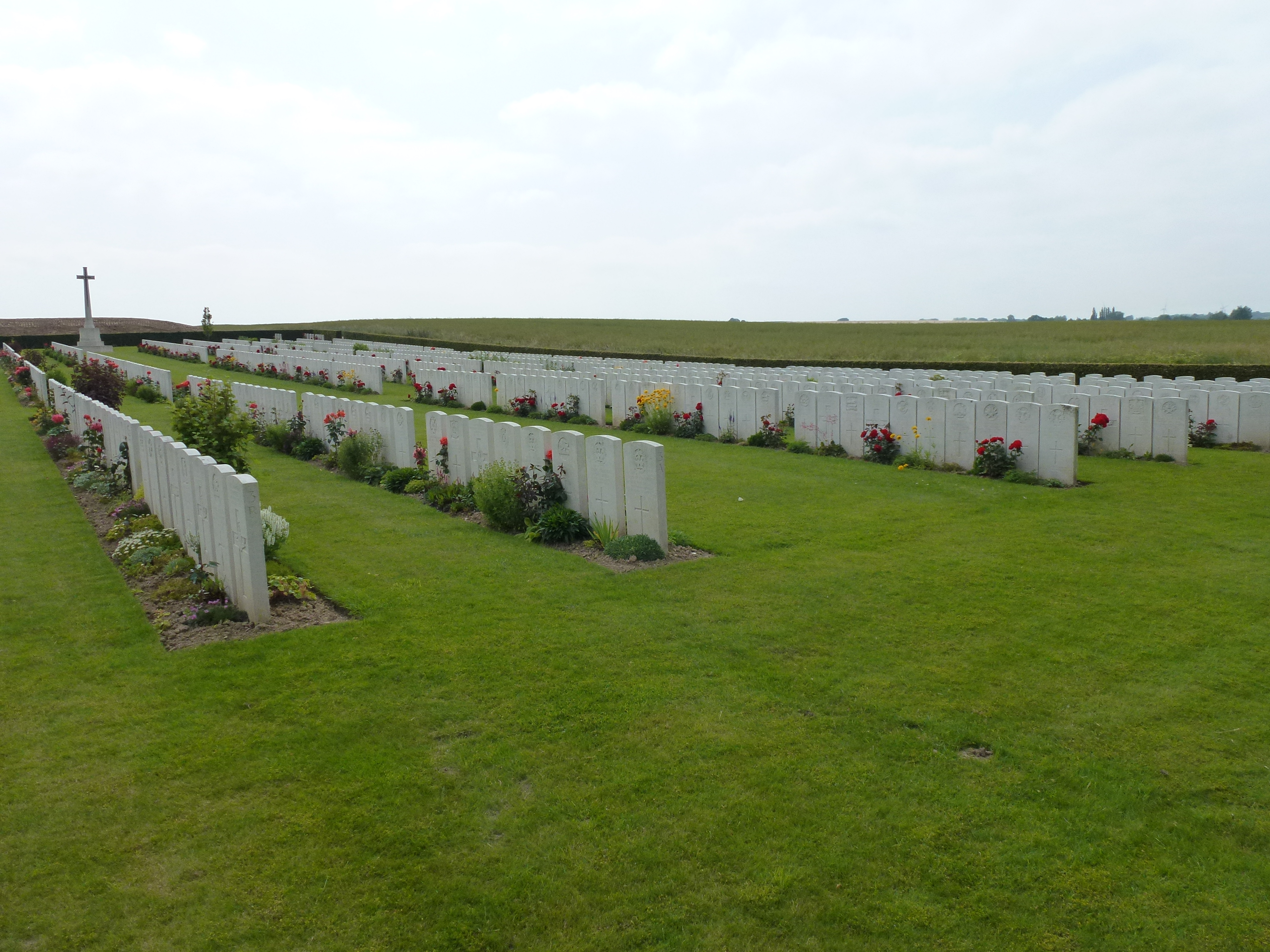 Pernes (Pas-de-Calais, Fr) Pernes British Cemetery